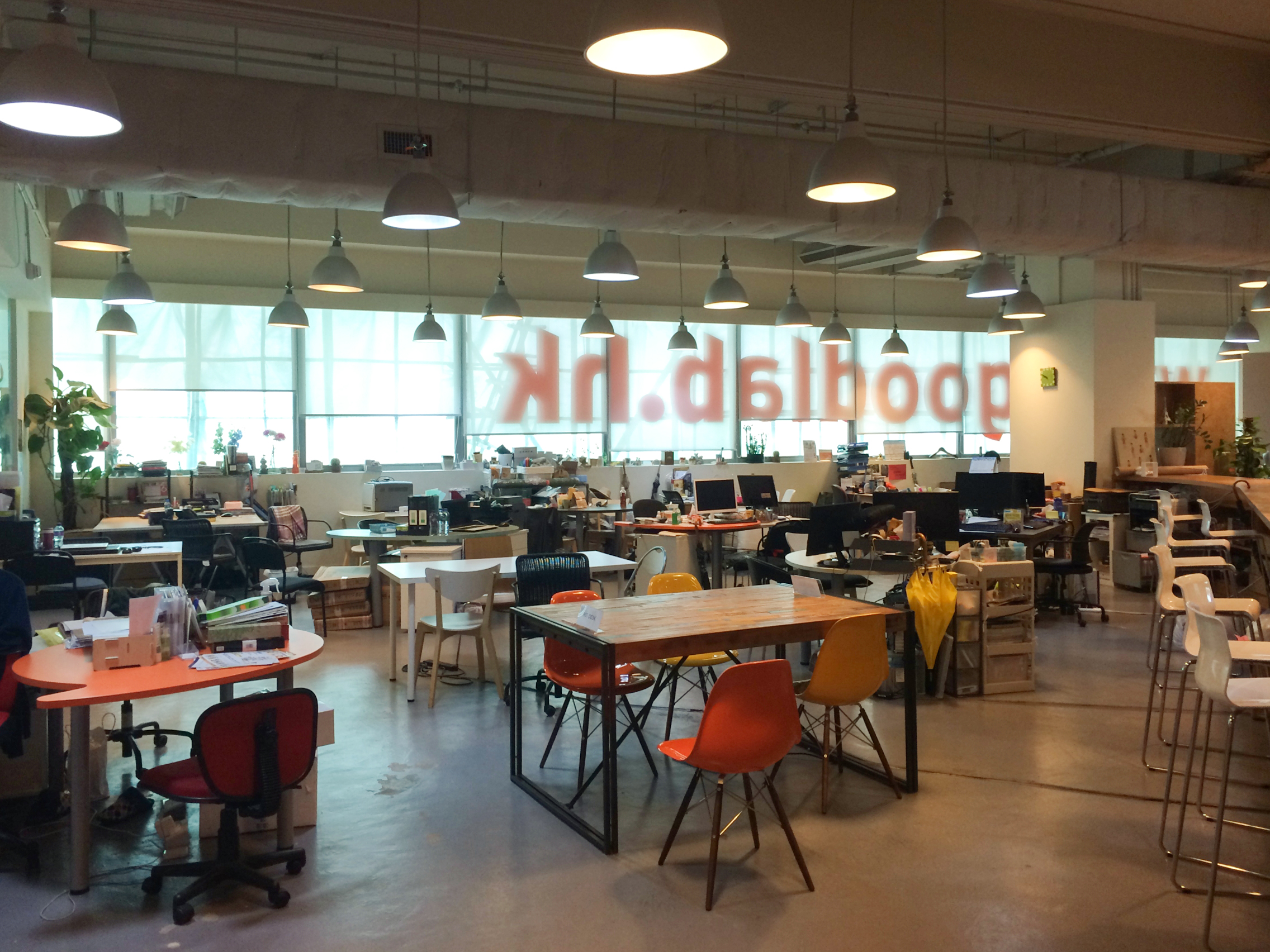 The Good Lab